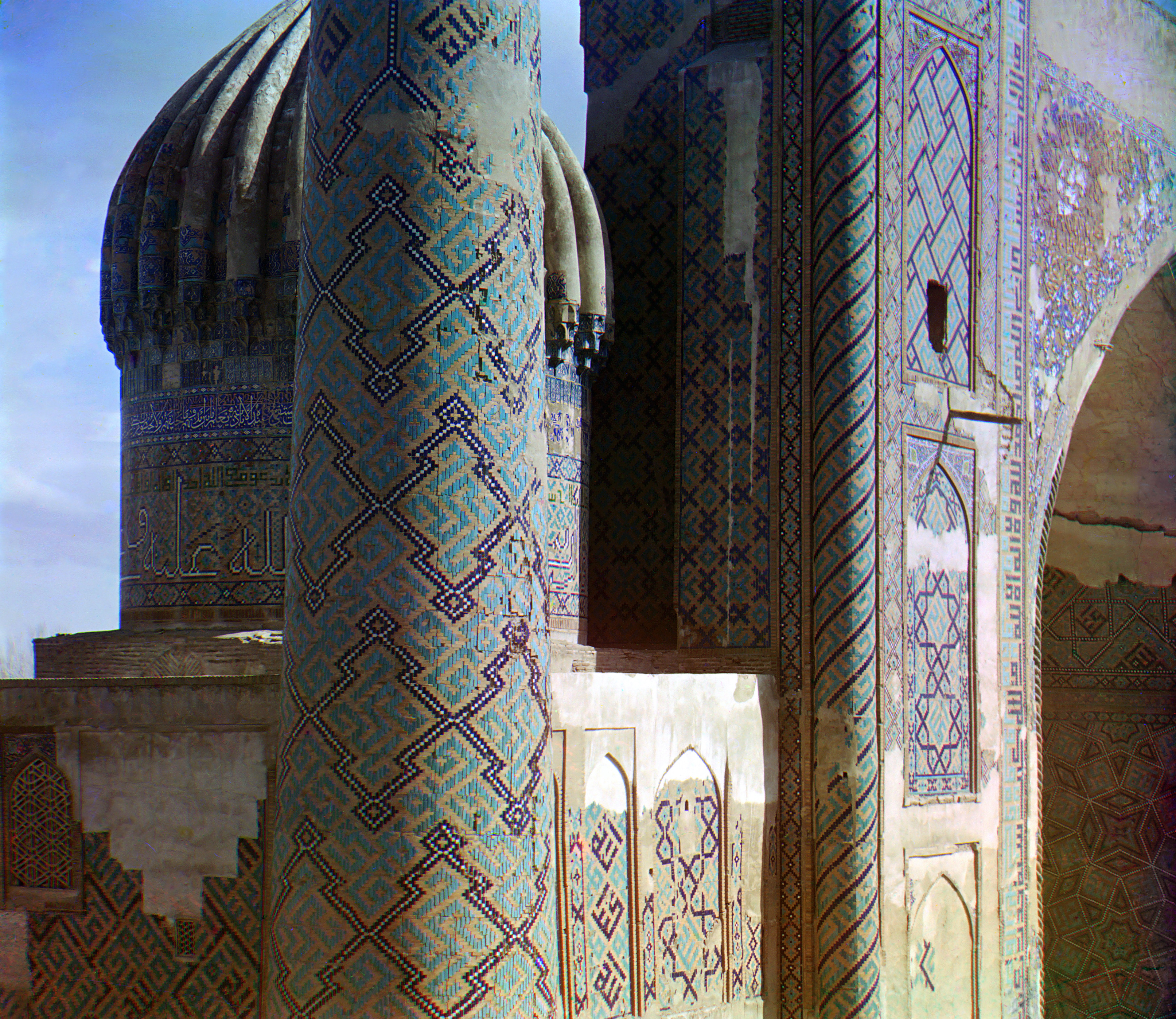 Original Description: Portion of Shir-Dar minaret and its dome from Tillia-Kari. Samarkand. View of Shir-Dar madrasah. Sherdor Madrasah, mosaic details — in Samarkand, Uzbekistan.